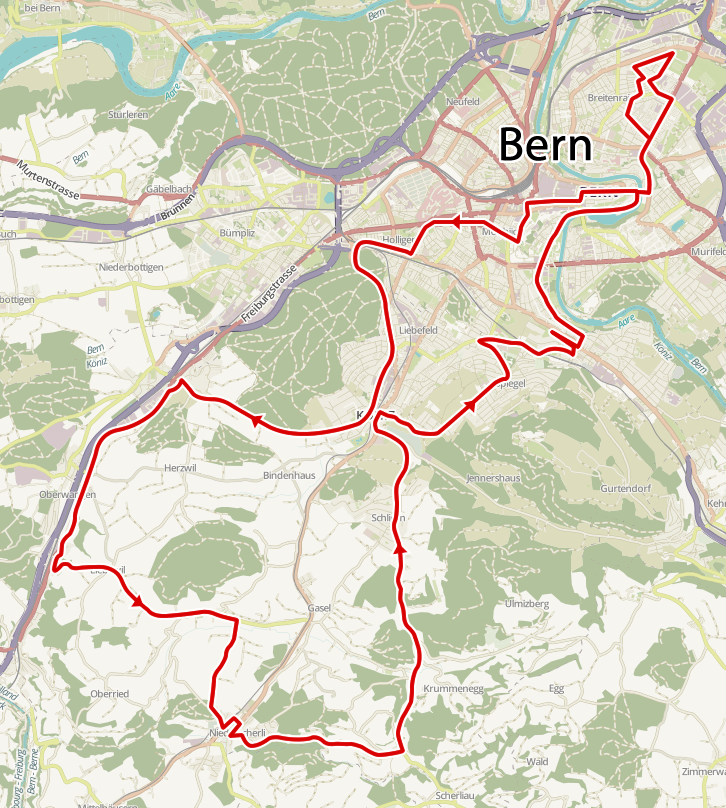 The route of the eighth stage of the 2015 Tour de Suisse. This map may be incomplete, and may contain errors. Don't rely solely on it for navigation.